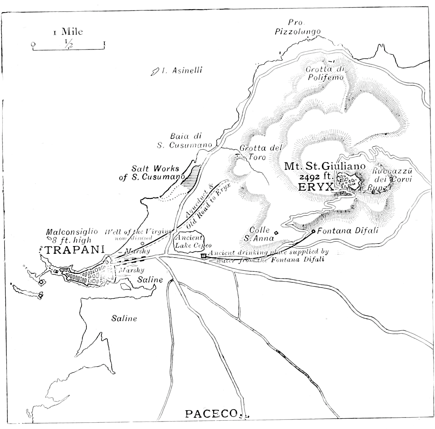 Map of Trapani and its immediate neighbourhood, from Samuel Butler's prose translation of The Odyssey (1900)